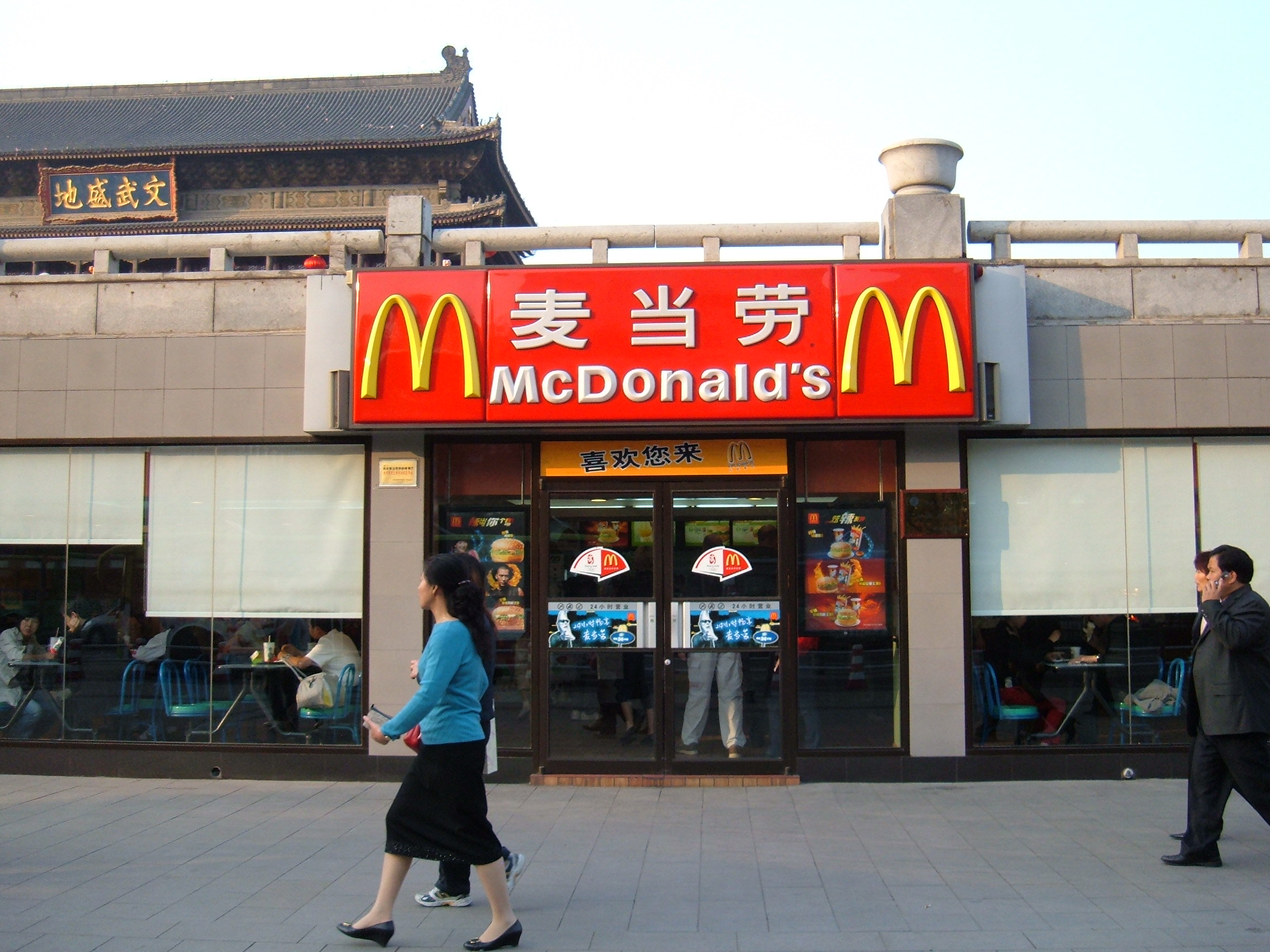 McDonald's in front of the Xi'an Drum Tower (background) in Xi'an, PRC.